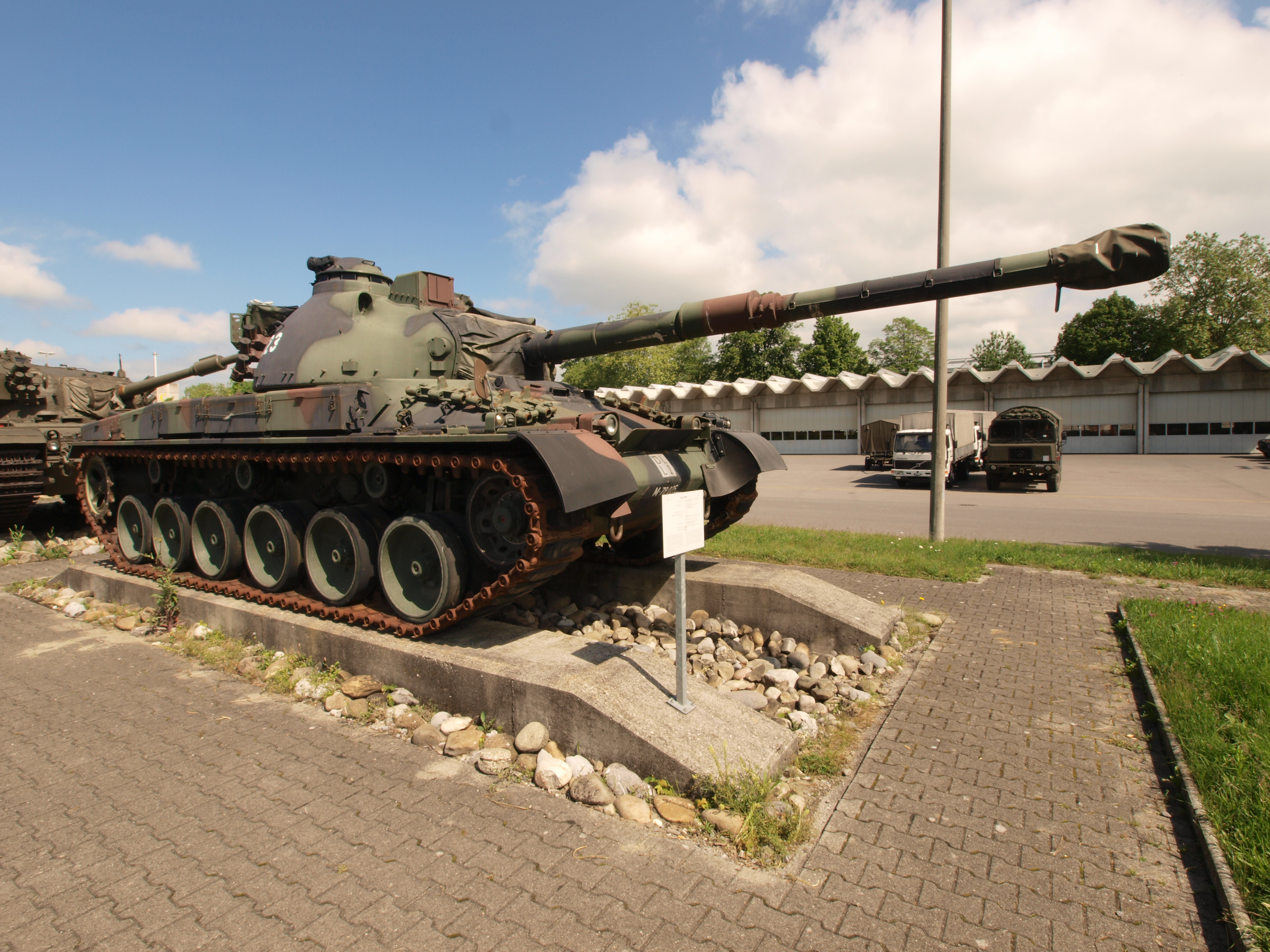 Photographed at the army base Thun, Switserland.